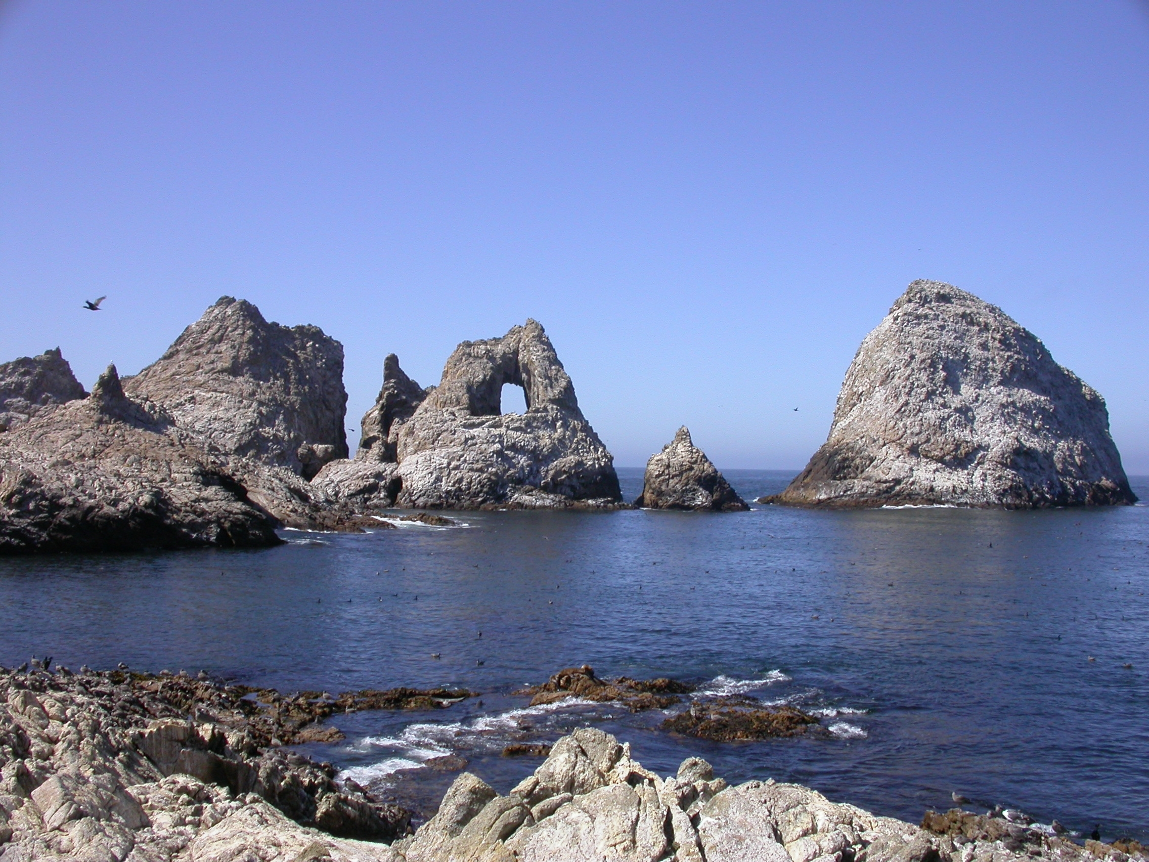 Aulon Island, Aulon Arch, Arch Rock, Sugarloaf, off the Farallon Islands, California.